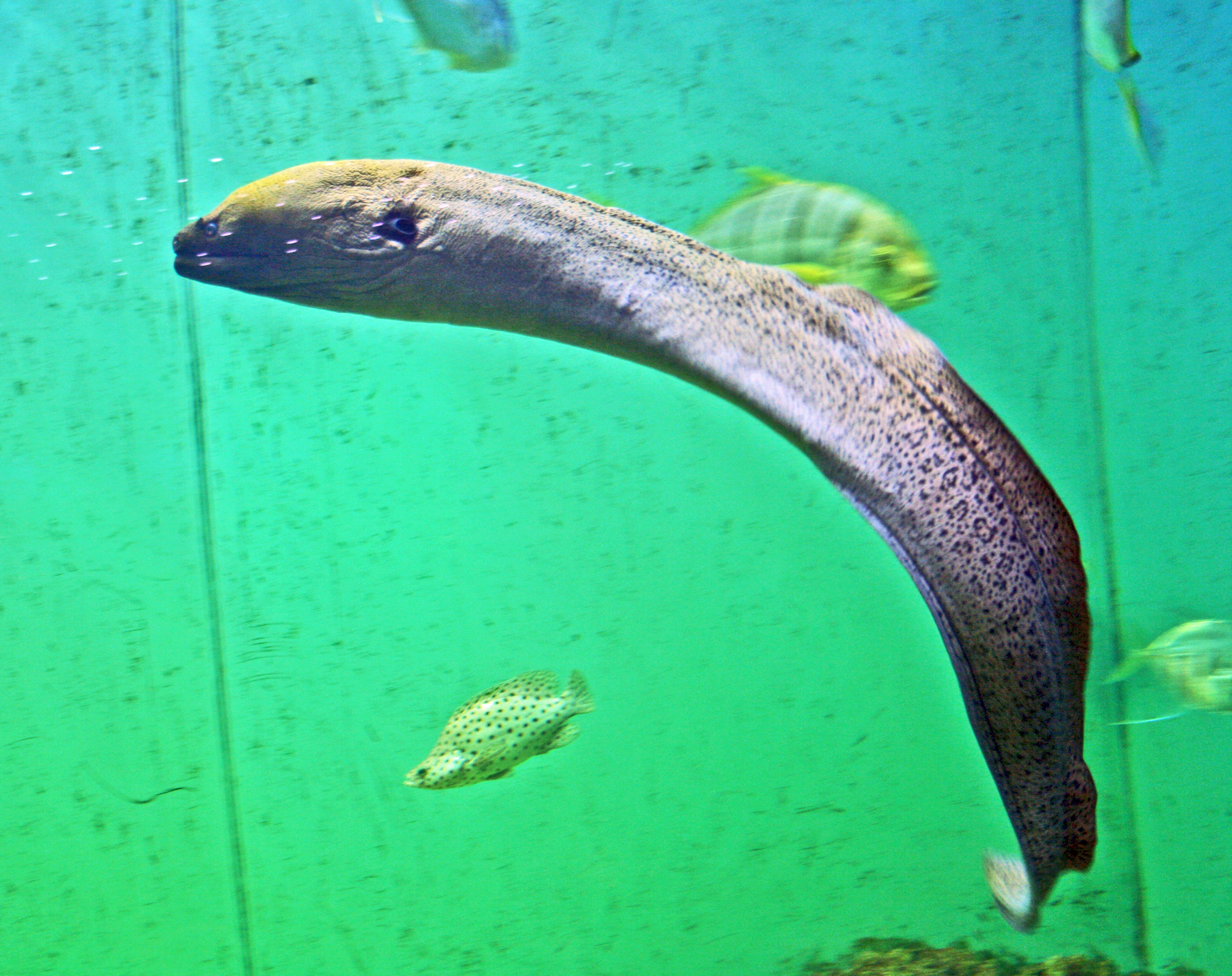 Fish Giant moray Gymnothorax javanicusin Prague sea aquarium, Czech Republic